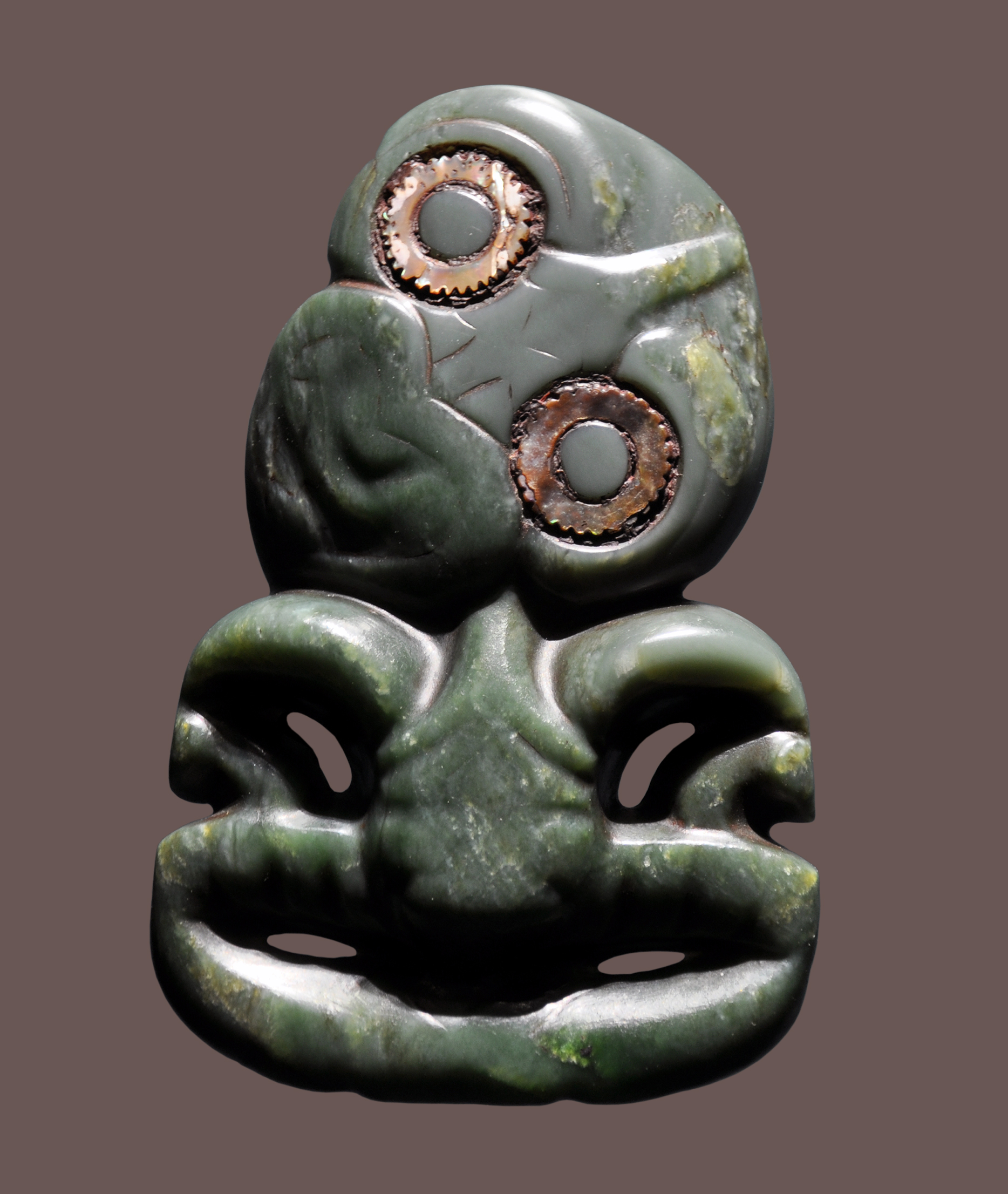 Anthropomorphic pendant (hei tiki), jade (nephrite), abalone shell and pigments, Maori culture, 1500-1800. In the exhibition "Maori, their treasures have got a soul", in the Musée des Arts Premiers in Paris, from the end of 2011 to the begining of 2012.